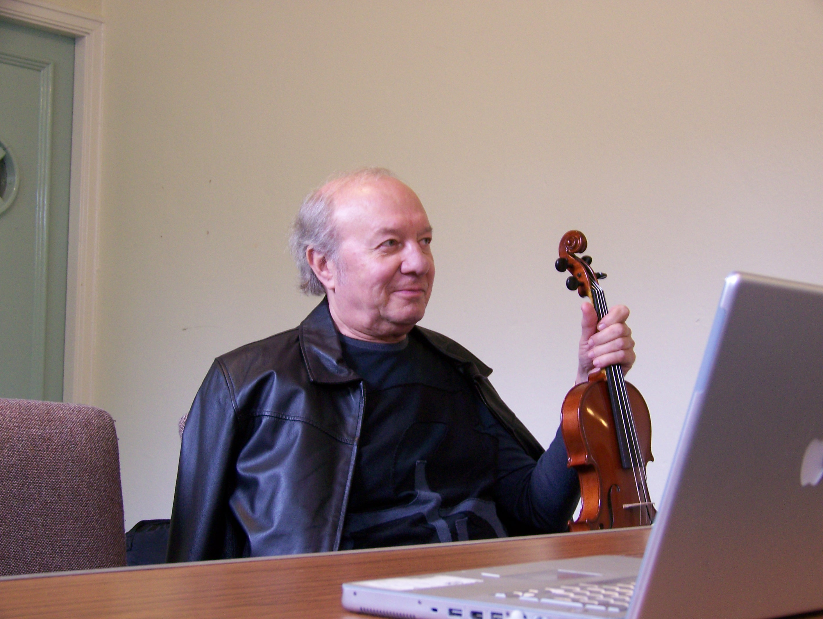 The picture was taken at the rehearsal of Georg Hajdu's piece Ivresse '84 (for violin and laptop performers) with the European Bridges Ensemble at the Whitla Hall in Belfast, at the ICMC 2008 festival.